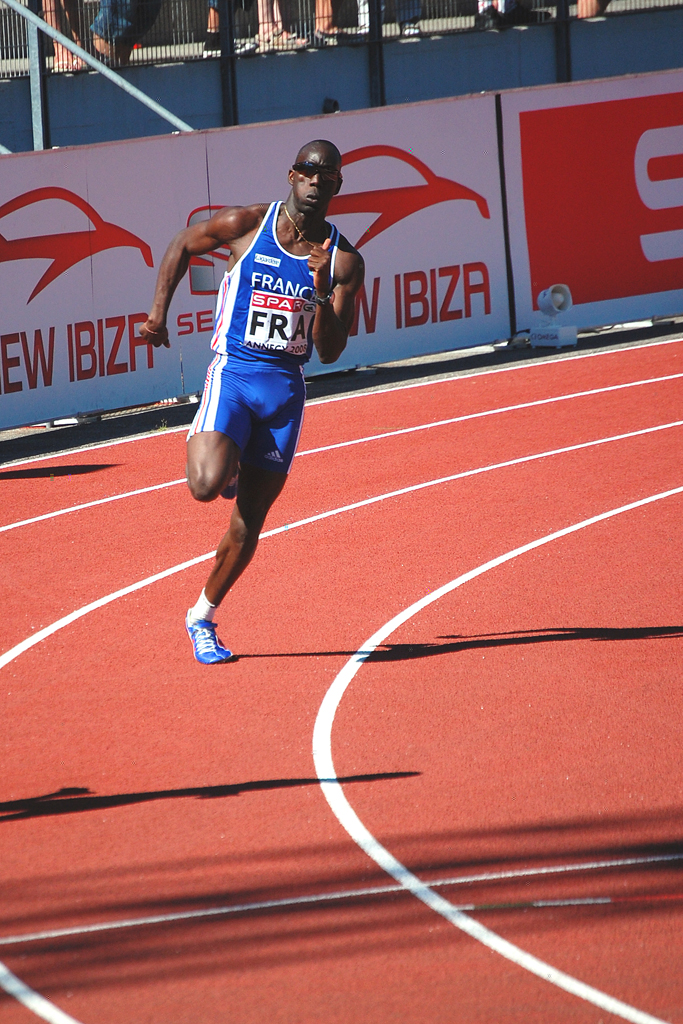 Leslie Djhone Coupe d'europe d'athletisme Annecy 2008